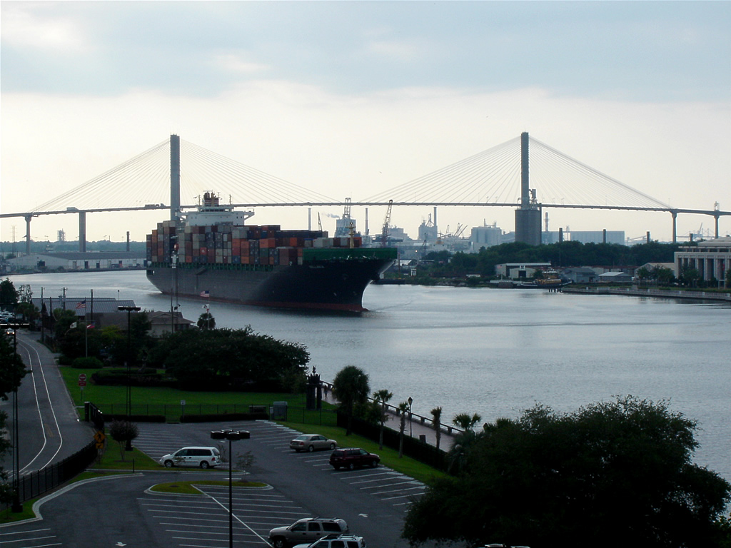 A cargo ship travels down the Savannah River, past River Street, Savannah, GA